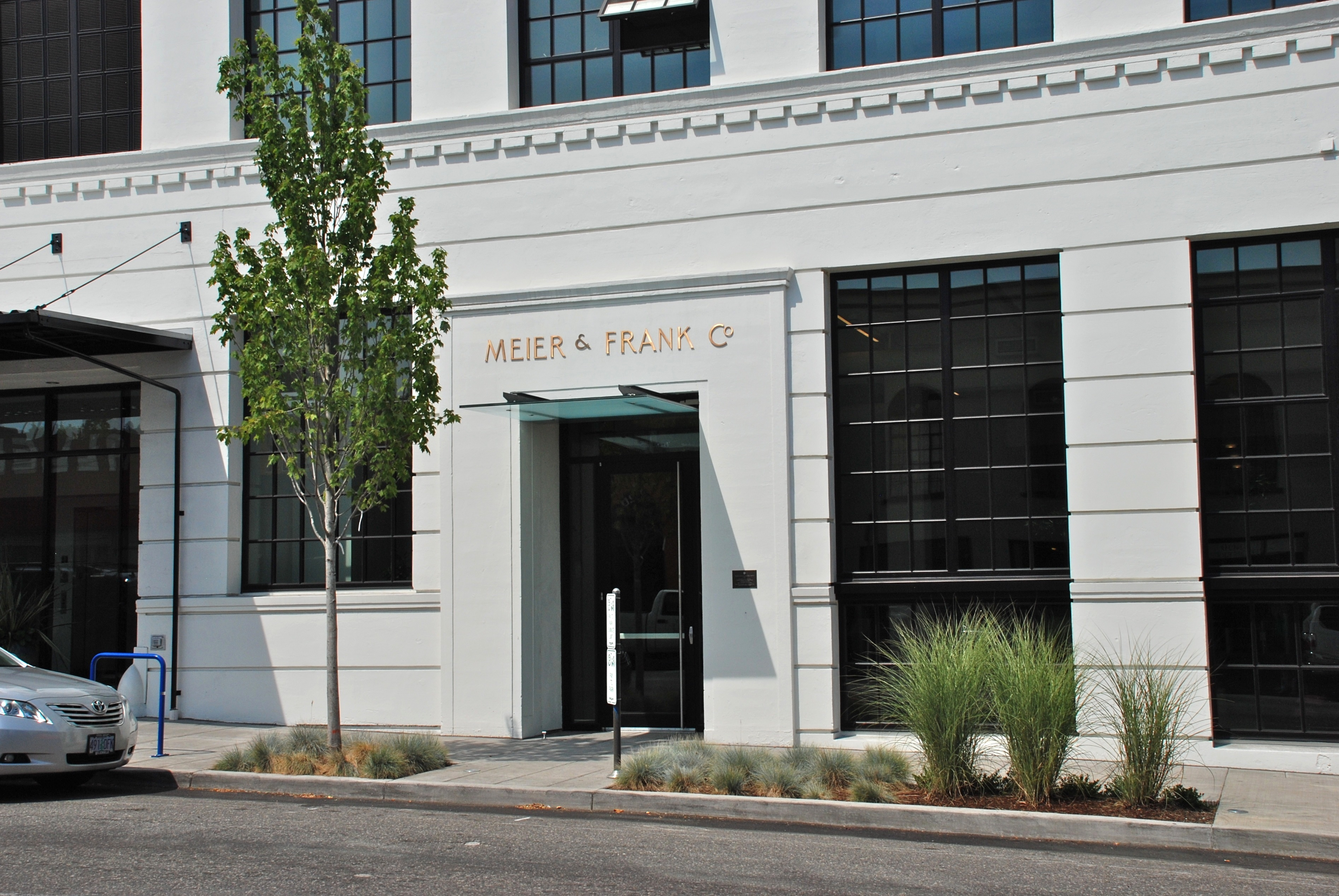 An entrance, with historic lettering for the Meier & Frank Company, on the south side of the former Meier & Frank Delivery Depot (at 1417 NW Everett St.), a 1927 building in Portland, Oregon, that is listed on the U.S. National Register of Historic Places. In 2012, the building was renovated and became the U.S. headquarters of Vestas.